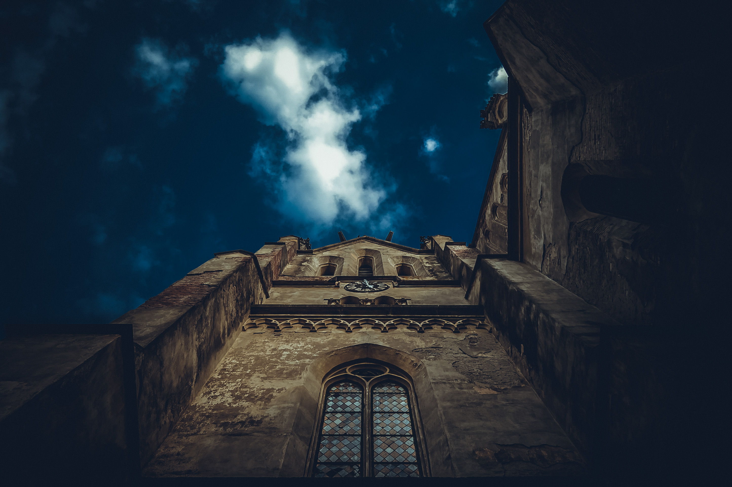 Roman Catholic Sacred Heart Church in Chernivtsi (architectural monument of the regional significance №22-Чв)